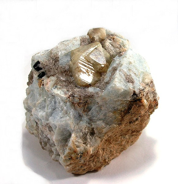 Rhodizite Locality: Sahatany Pegmatite Field (Mt Bity (Ibity) area), Manandona Valley, Vakinankaratra Region, Antananarivo Province, Madagascar (Locality at ) Size: 4.3 x 4.1 x 3.7 cm. A lustrous, beige- colored octahedron of rhodizite, measuring 1.5 cm in length, is nestled in a vug. Ex. Martin Zinn Collection.